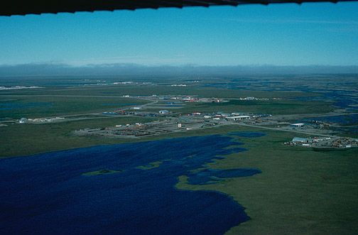 Aerial view of Prudhoe Bay, Alaska FWS keywords Wetlands; Aerial photography; Rivers and streams; Alaska DIVISION OF PUBLIC AFFAIRS WO-Wetlands-4456 Rights Public domain